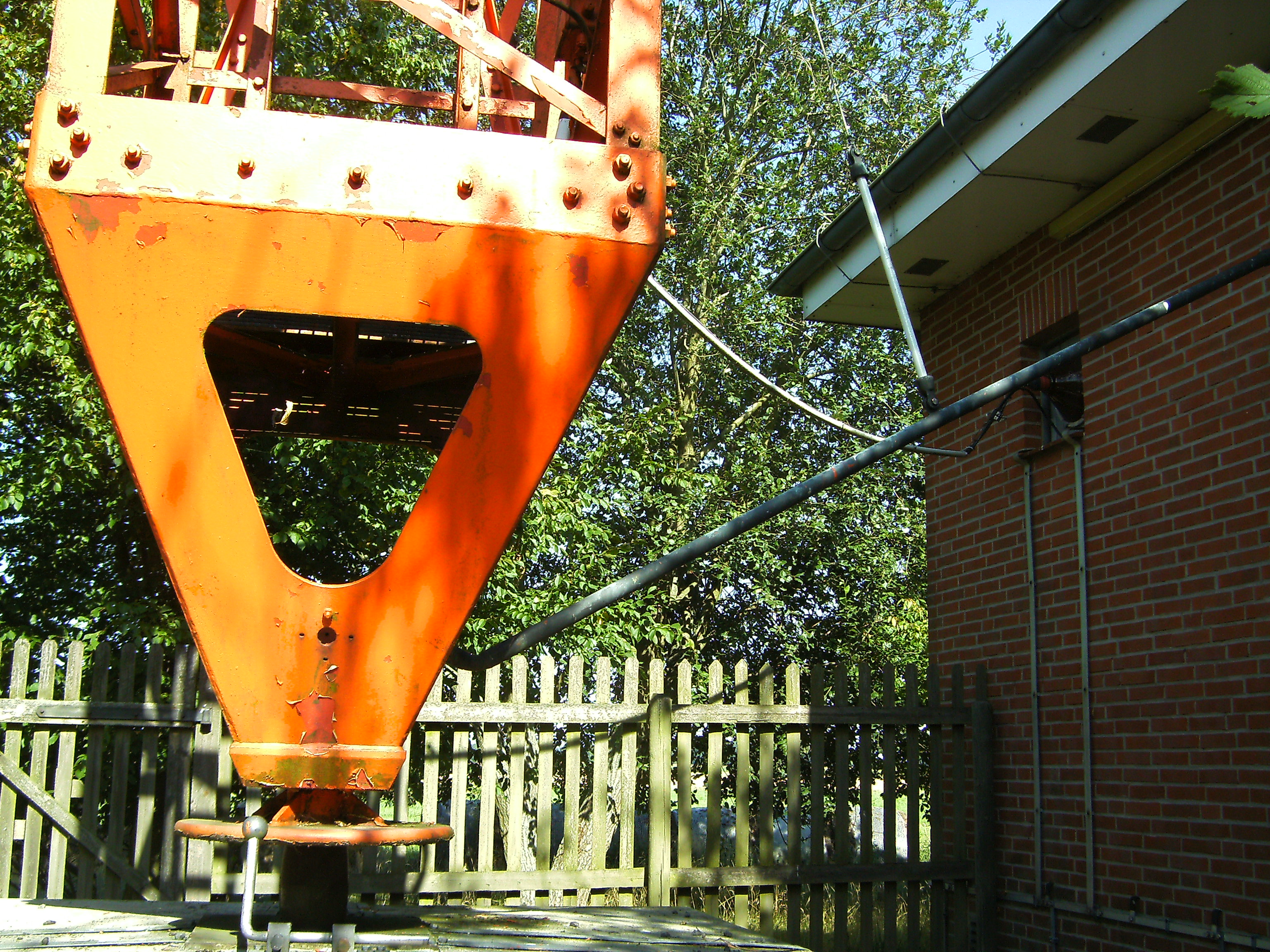 Base of Dannenberg-Pisselberg radio mast